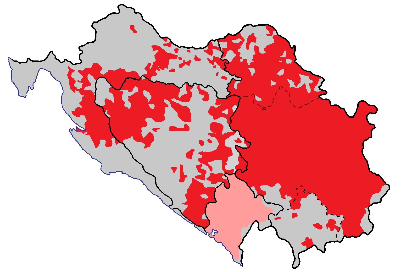 Serb majority areas in Croatia, Bosnia and Montenegro according to the 1981 census. Serbs Montenegrins sources used: Serbs in Yugoslavia (1981) Ethnic map of Montenegro according to the 1981 census.